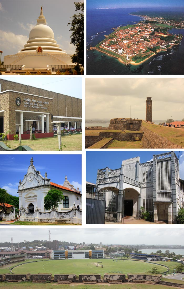 Various Places of Galle